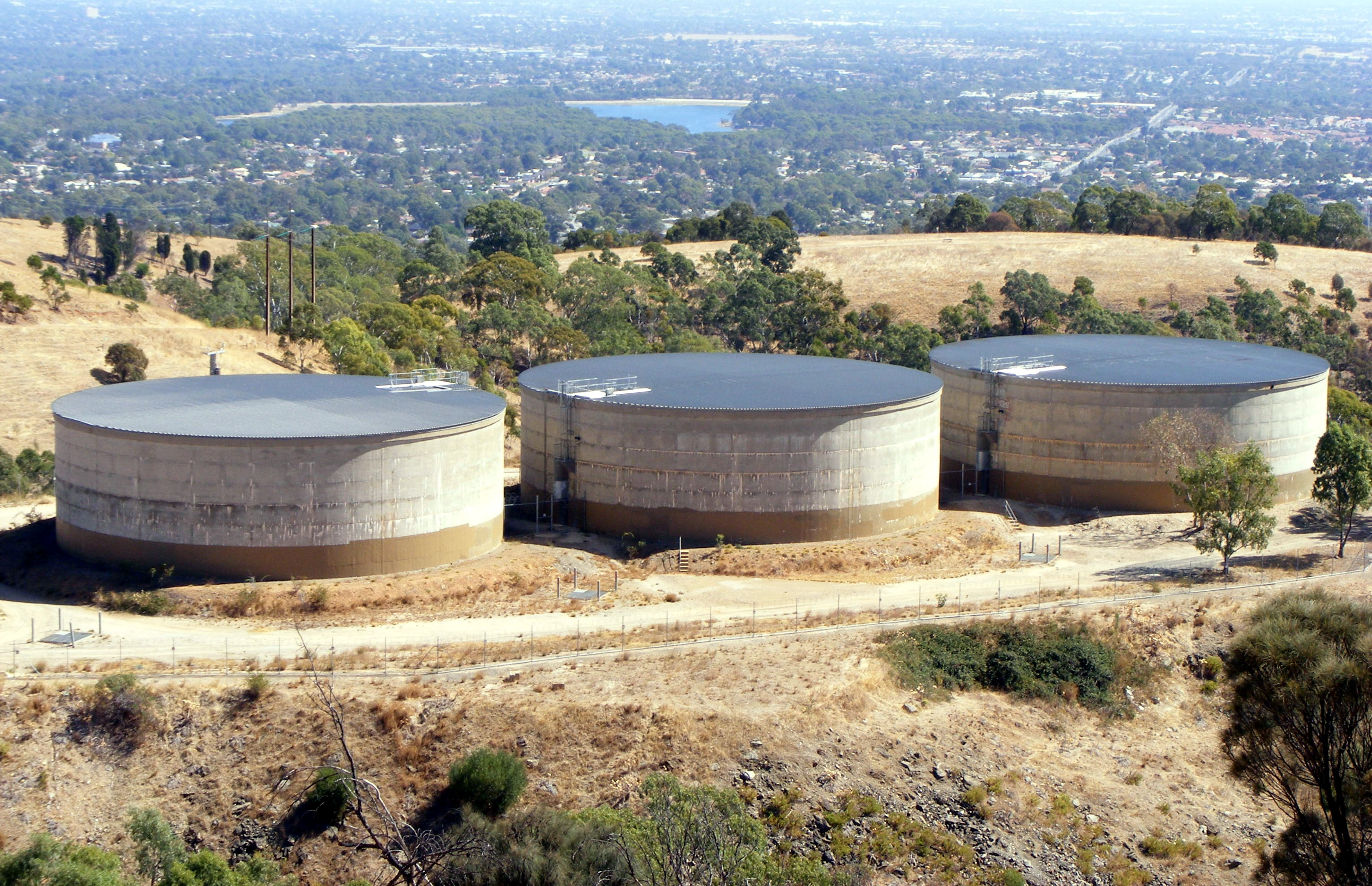 Water Storage tanks - connected to the water filtration plant at Anstey Hill Recreation Park, Adelaide, South Australia